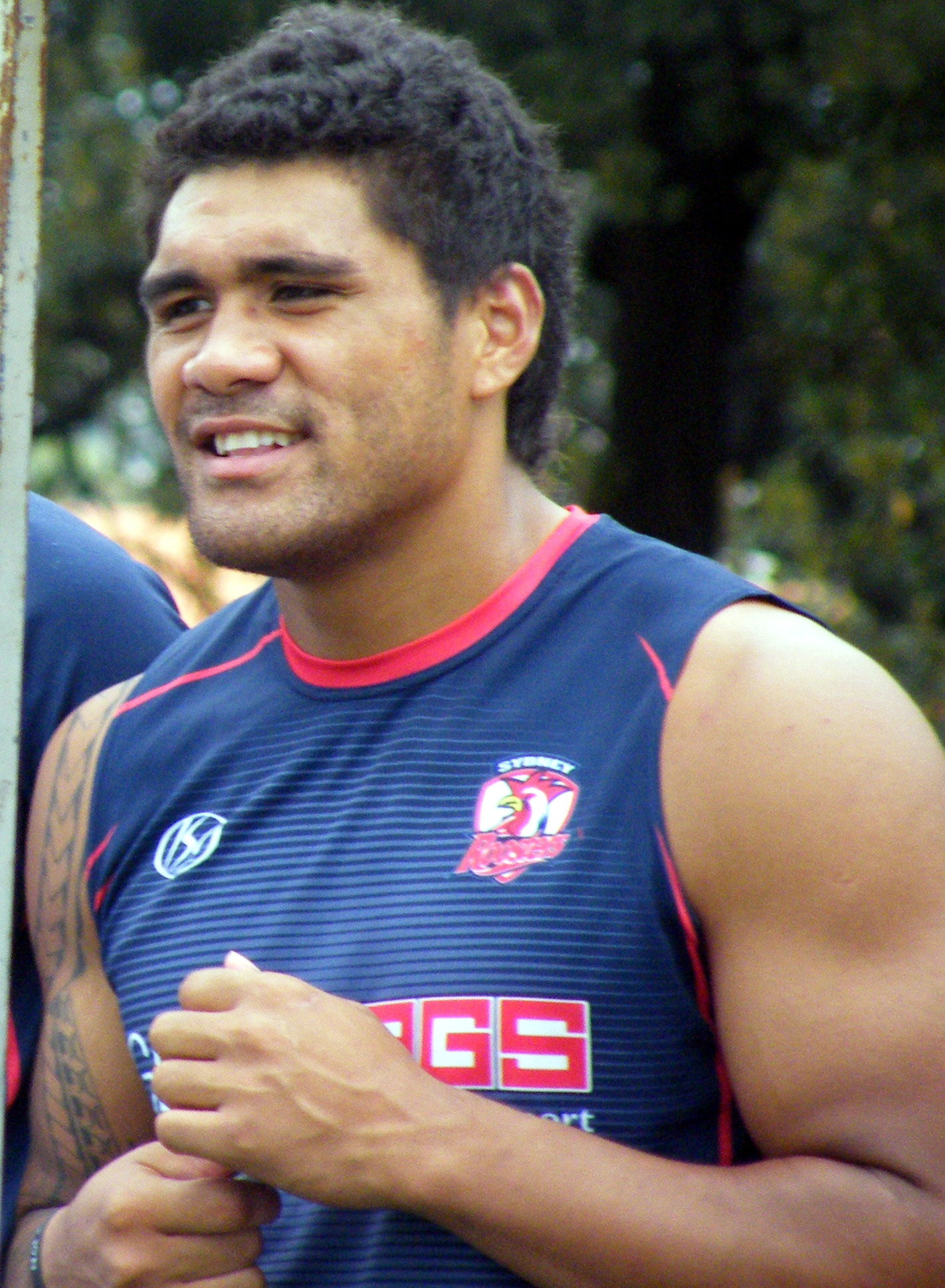 Mose Masoe of the Sydney Roosters at the Federation Cup Fan Day 2010.